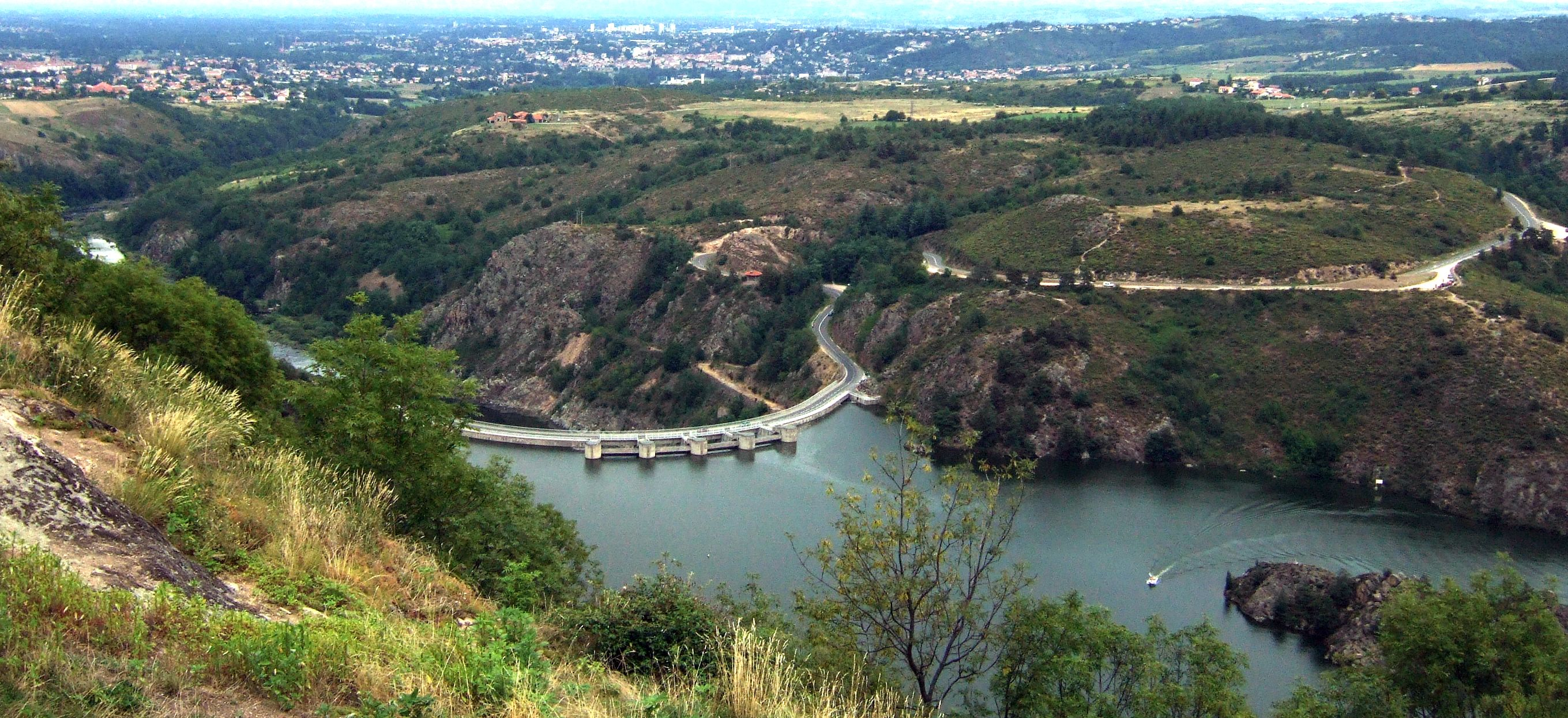 Overview of the Grangent dam (Département of Loire, France), looking downstream. I did it.